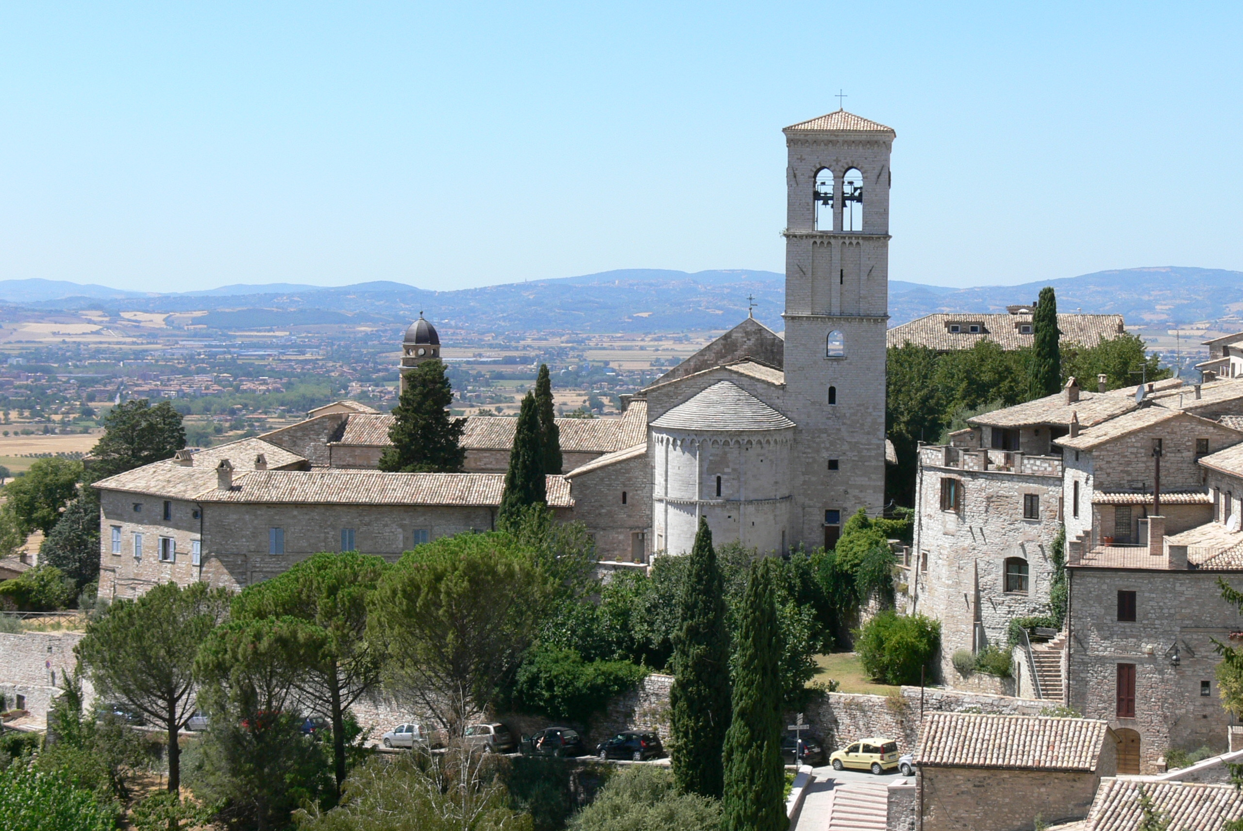 Santa Maria Maggiore church ( Assisi ).